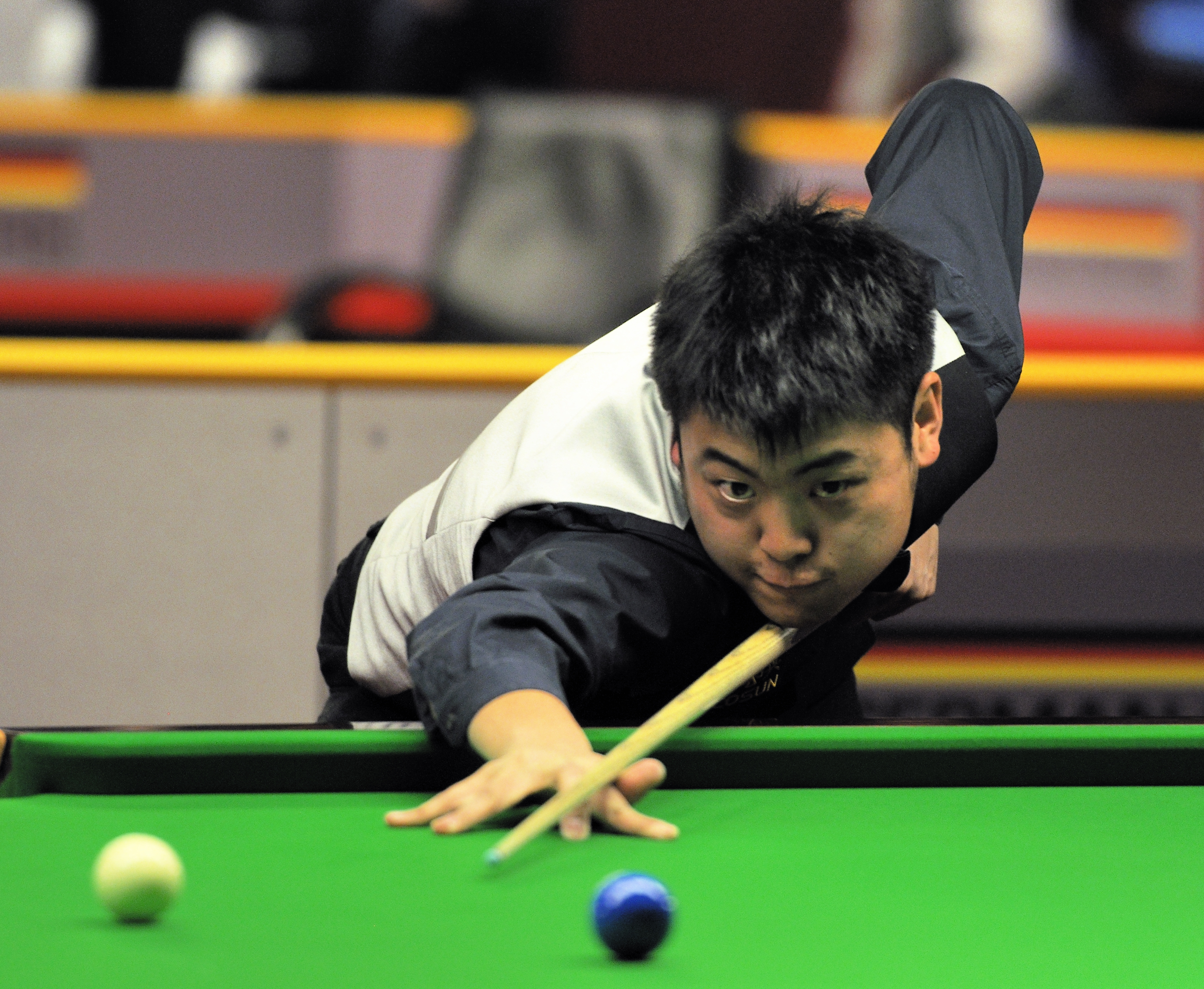 Picture taken in Berlin during the Snooker German Masters in 2014. Liang Wenbo.